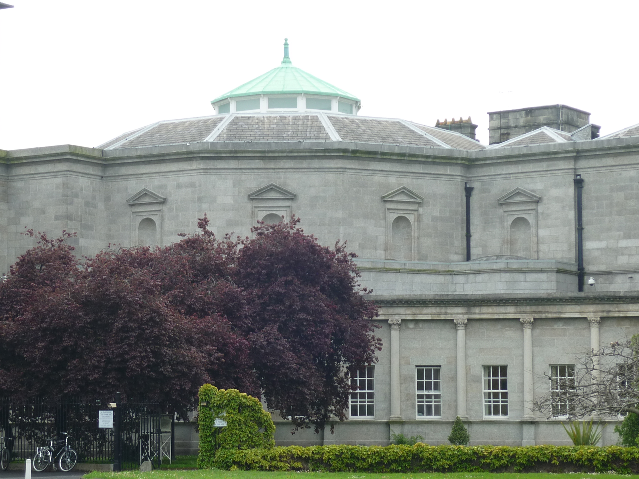 The Victorian addition to the Leinster House complex which now houses the Dáil chamber, taken from the grounds.